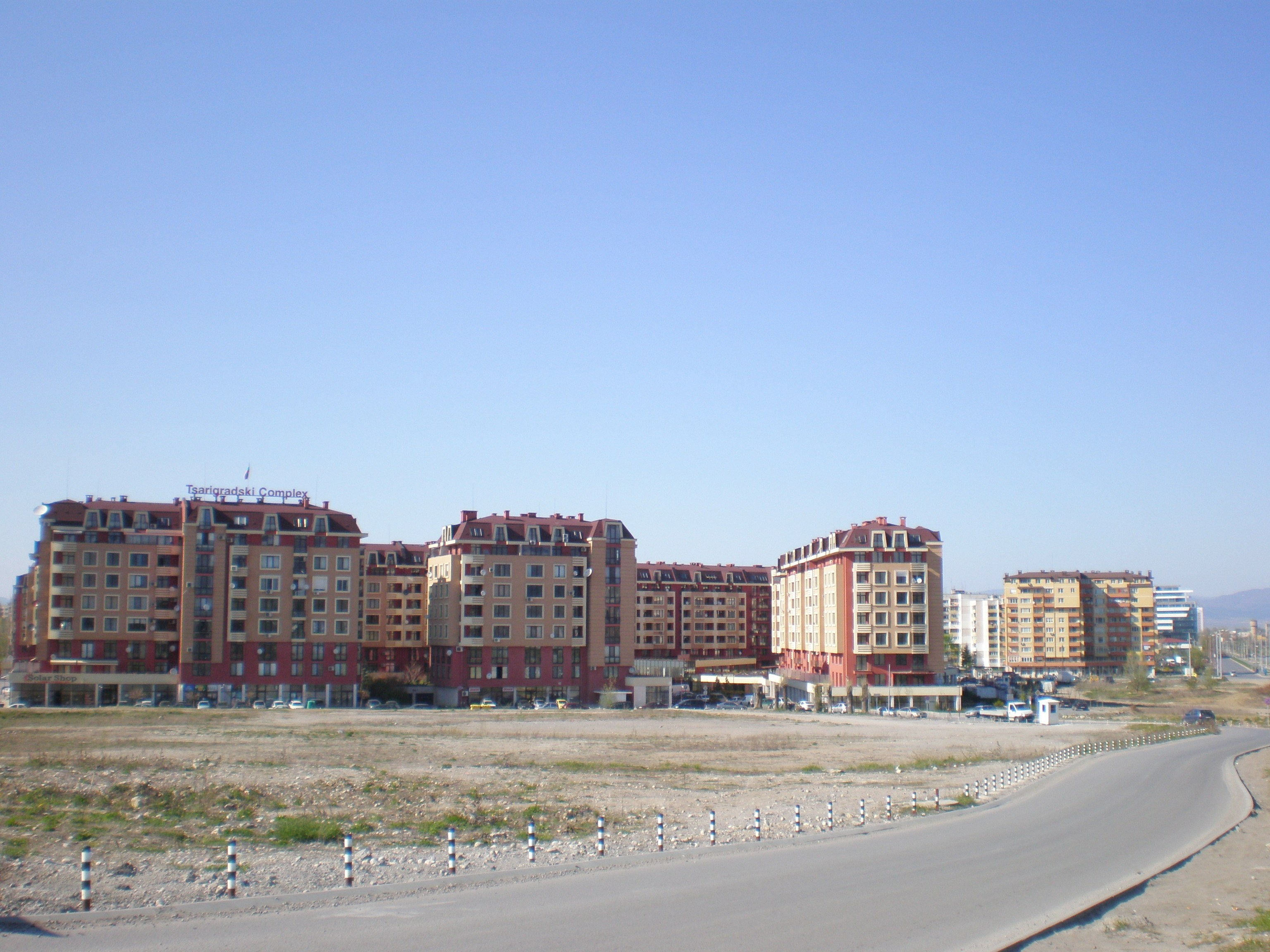 Tsarigradski complex, Sofia, Bulgaria